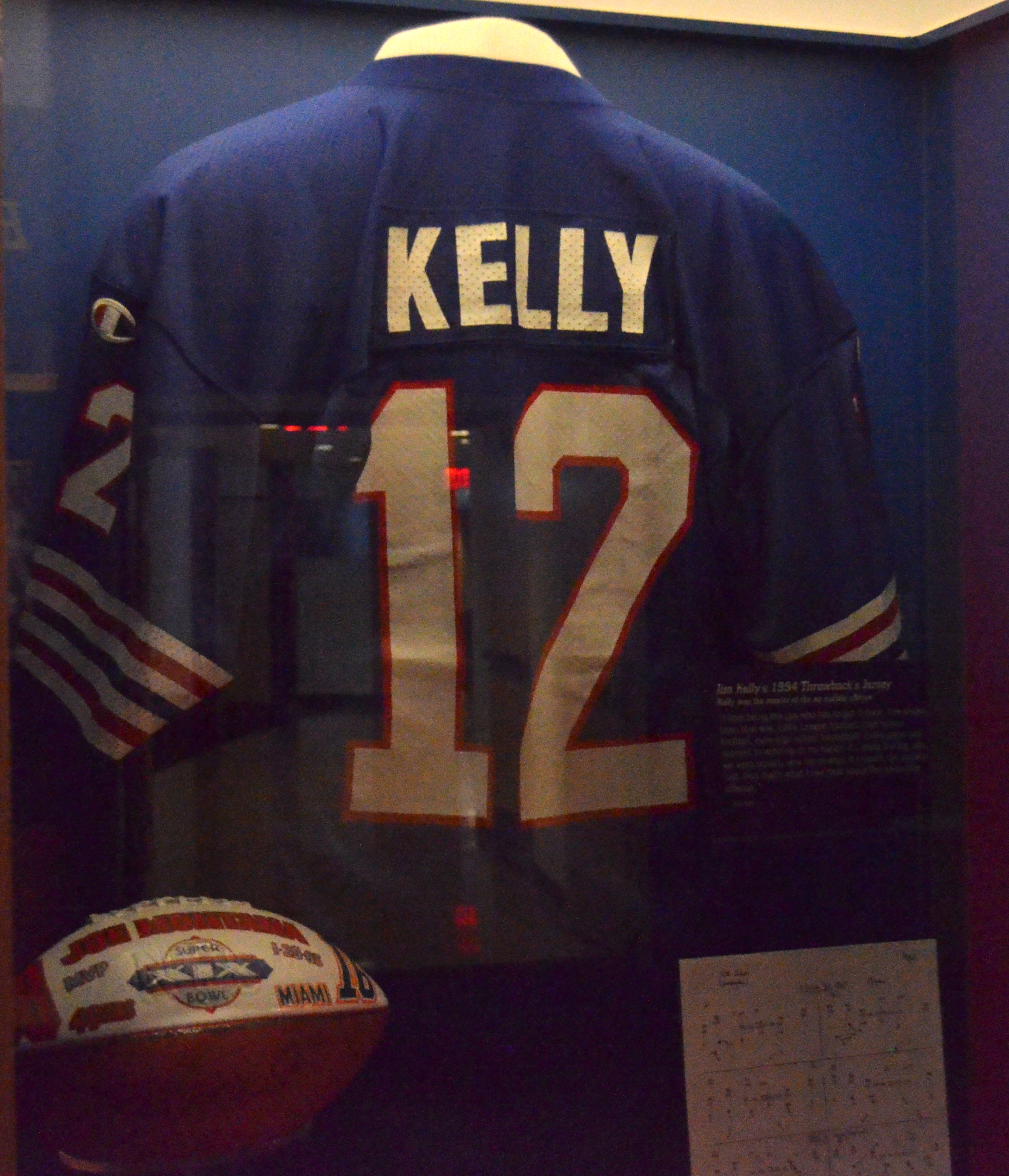 1994 Jim Kelly jersey shown at Pro Football Hall of Fame in Canton, OH